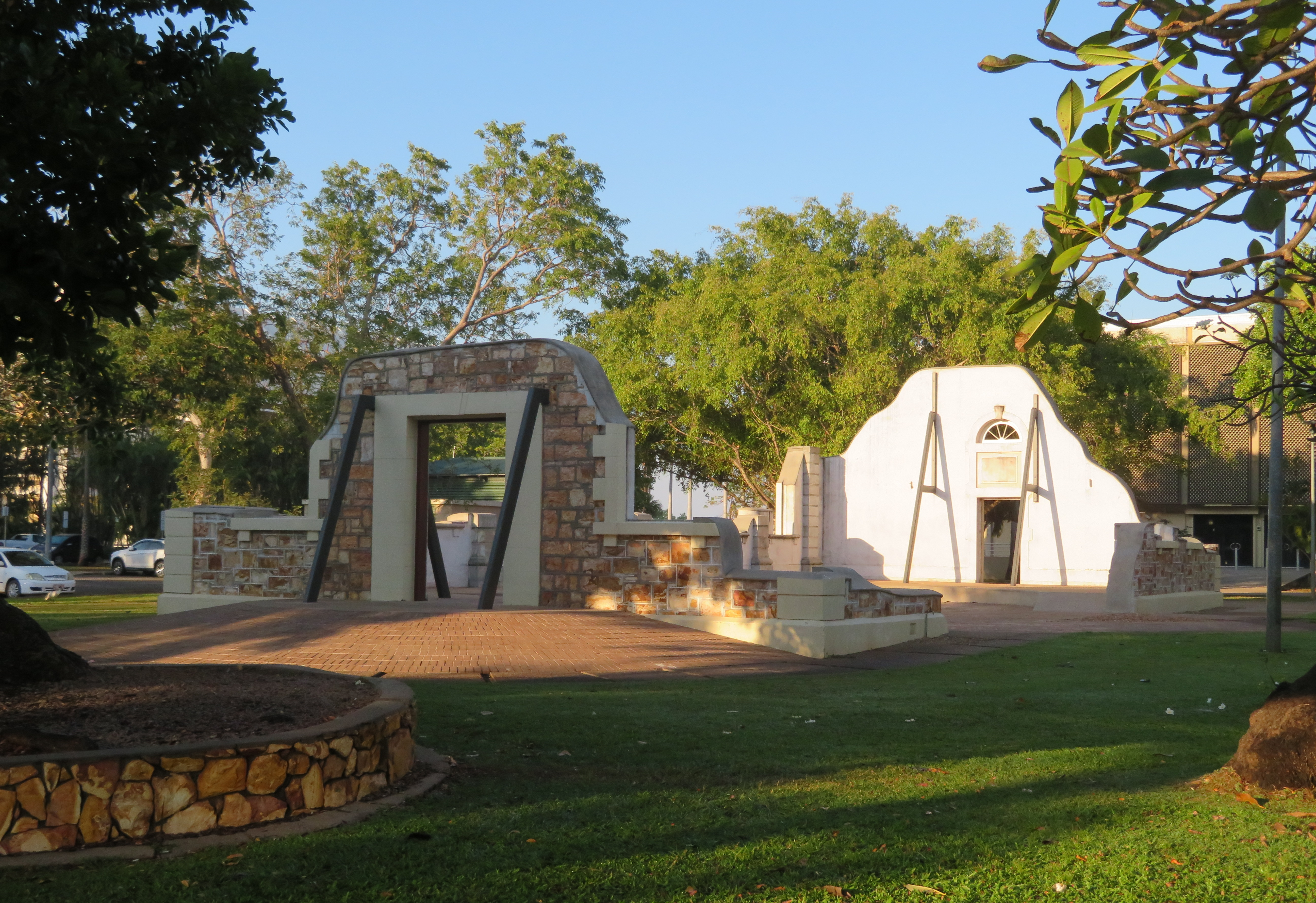 Former Town Hall, Darwin, Australia